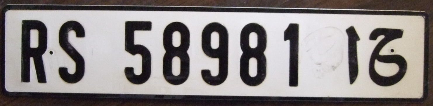 Tunisian license plate for foreigners